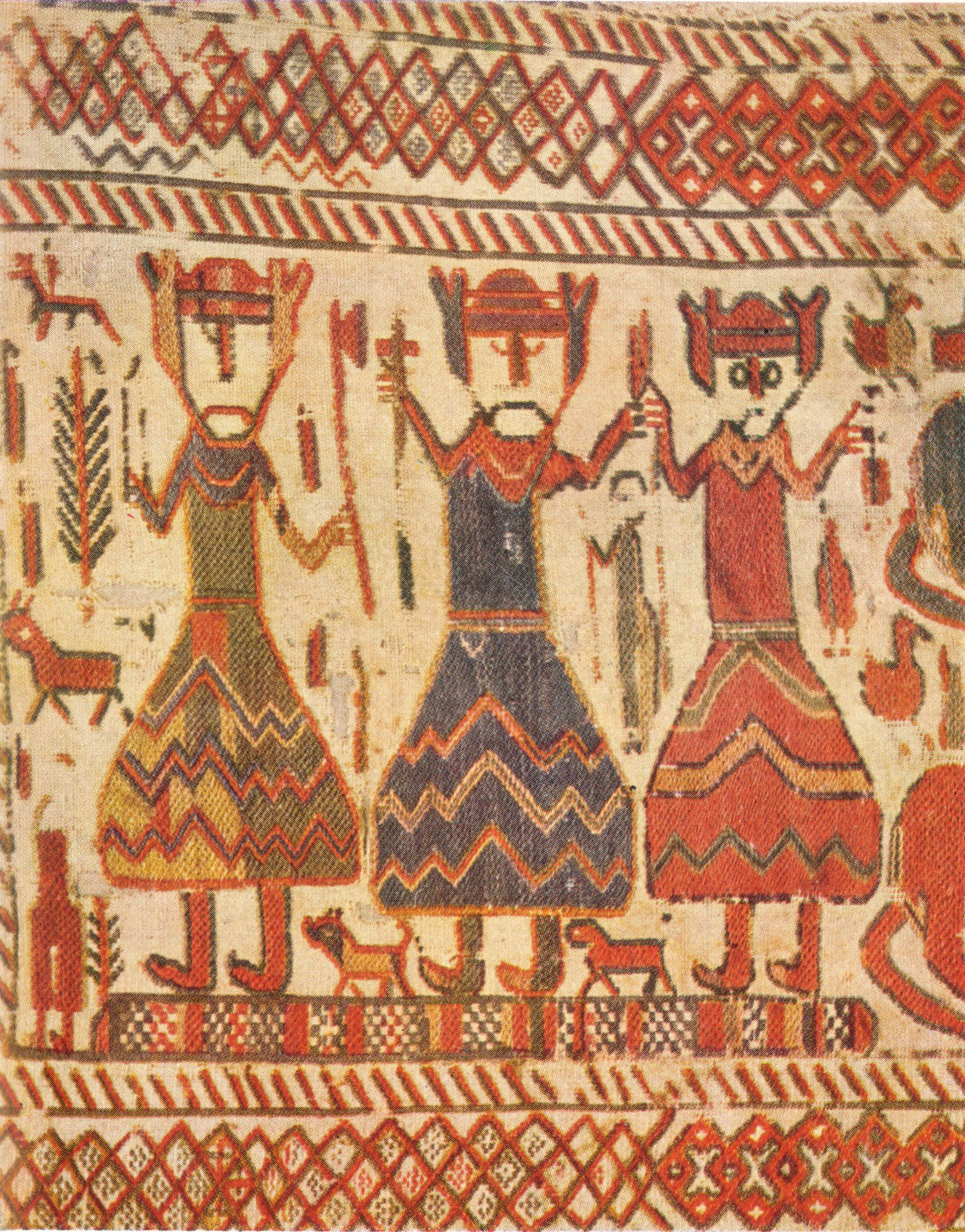 Odin, Thor and Freyr or three Christian kings on the 12th century Skog church tapestry.